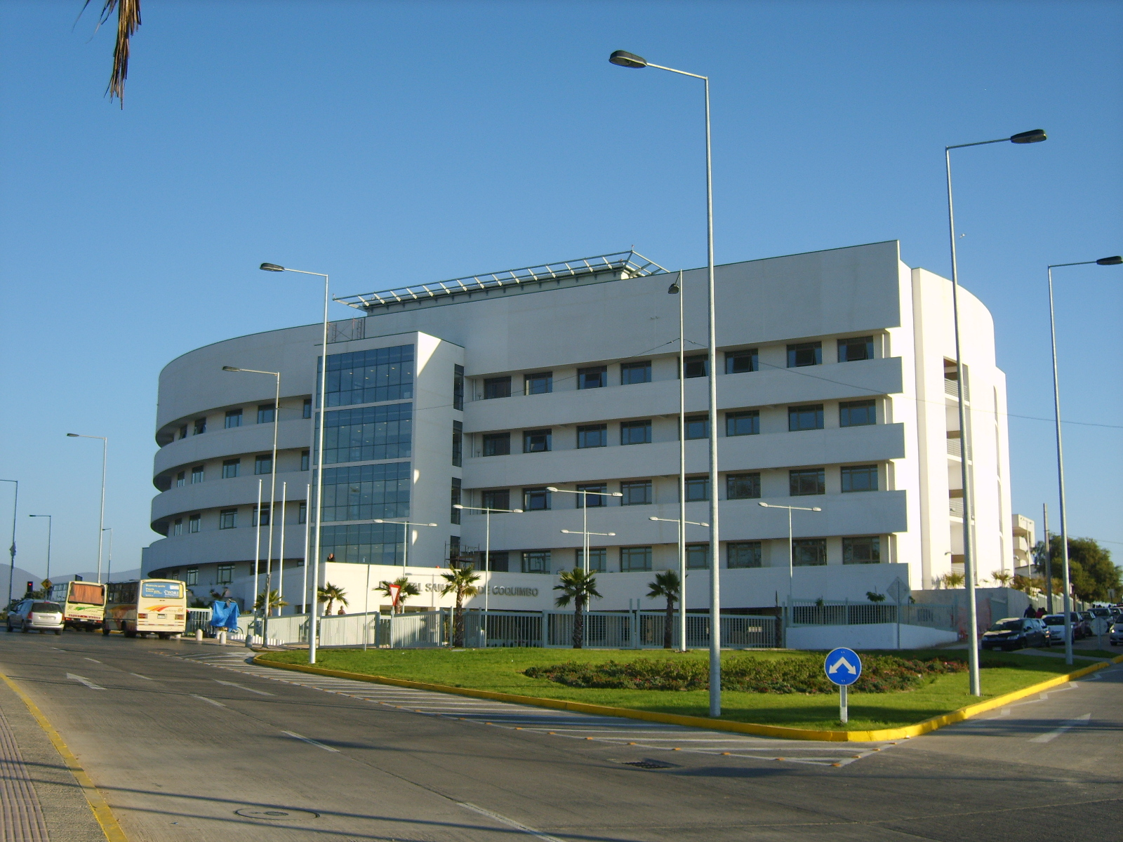 View of the San Pablo Hospital, in Coquimbo, Chile. Taken from Videla Avenue